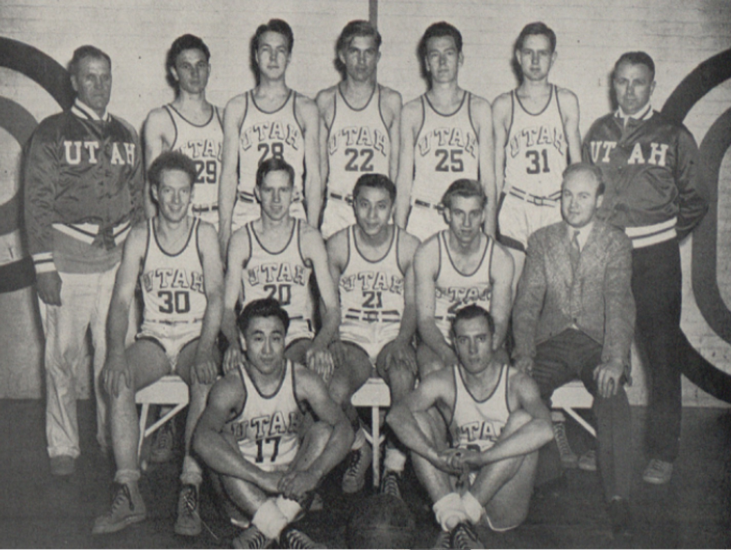 The 1943-44 University of Utah basketball team from the 1945 “Utonian” yearbook